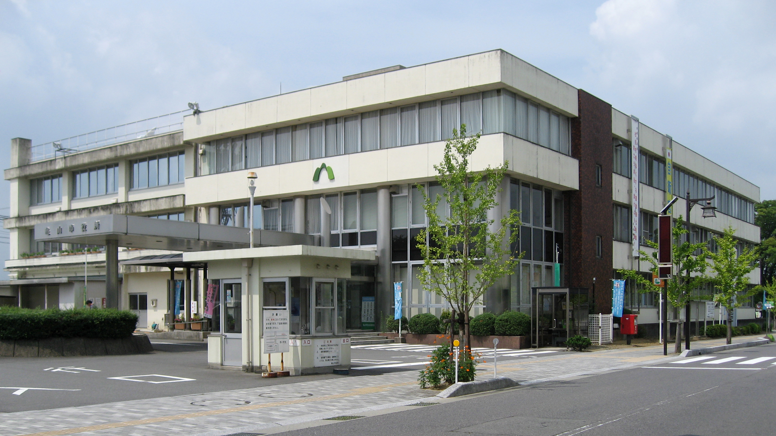 Kameyama cityhall I took this image at Honmaru Kameyama Mie Pref., Japan.